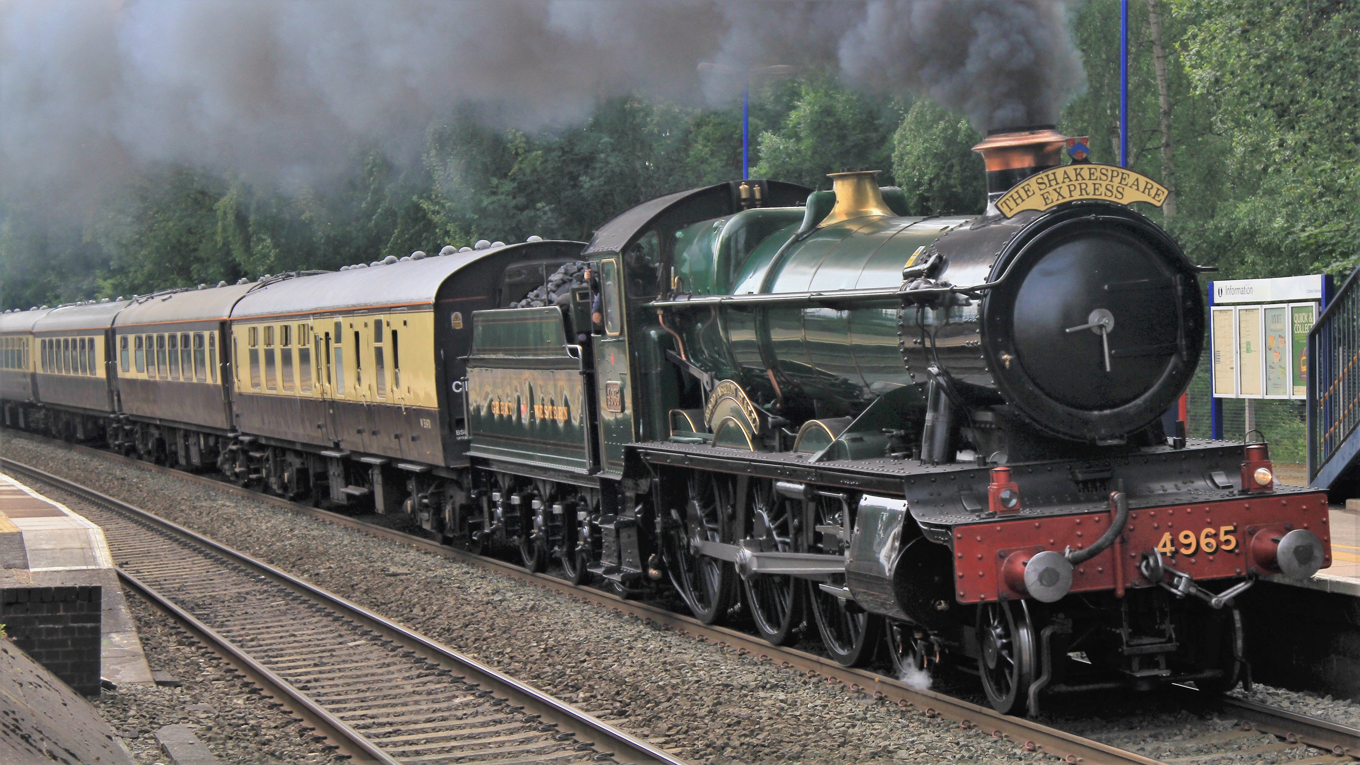 4965 Rood Ashton Hall heads the Shakespeare Express through Lapworth 24-07-2016